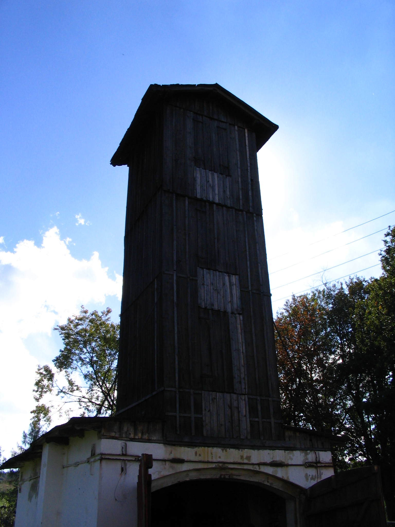 Former tower of Okrzeszyn Fire Brigade, Okrzeszyn, Poland, 2005 yr. Aparat/Camera: Canon PowerShot A75